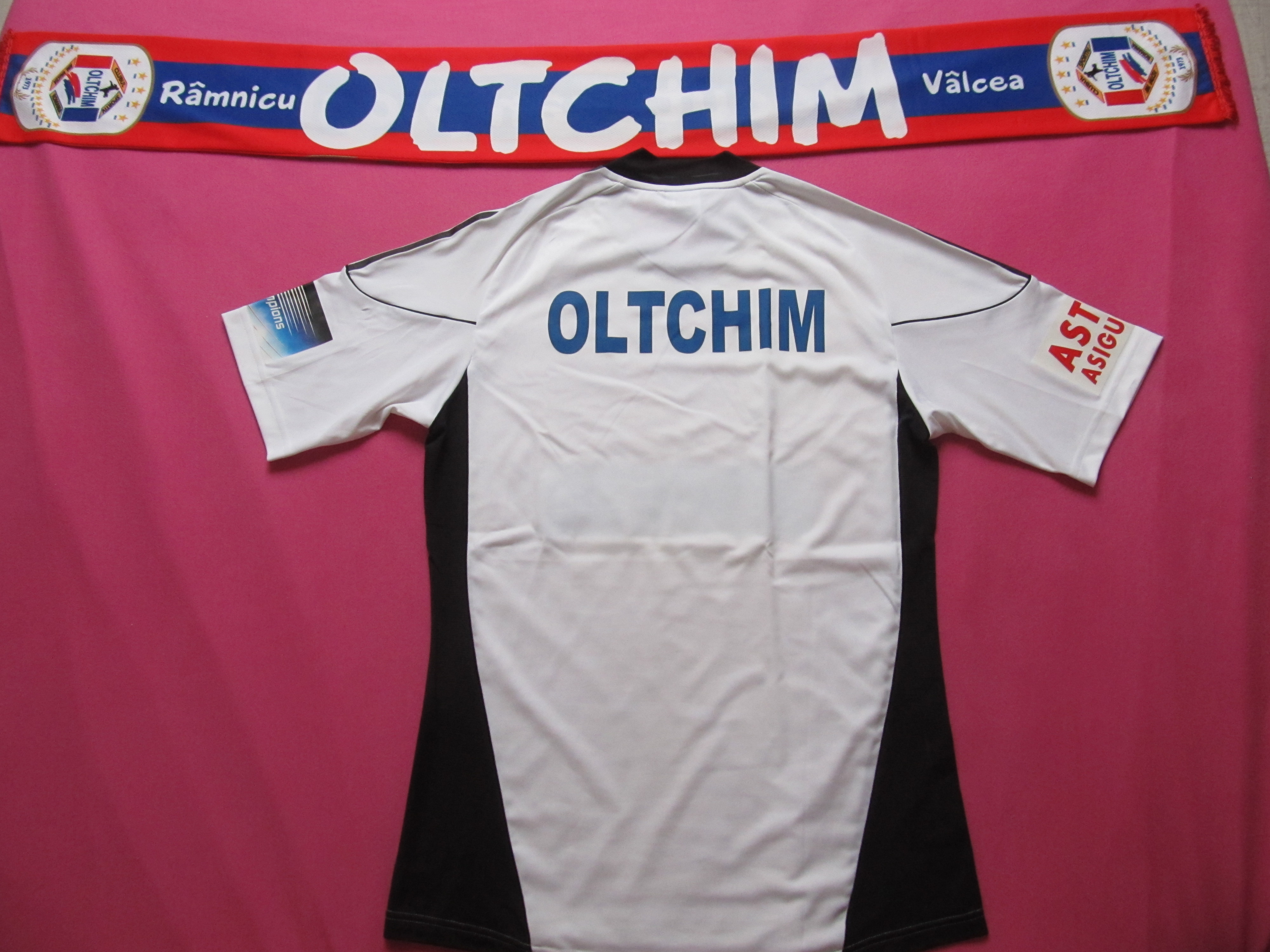 Jersey of the former Romanian handball team CS Oltchim Râmnicu Vâlcea, produced and sold to fans.